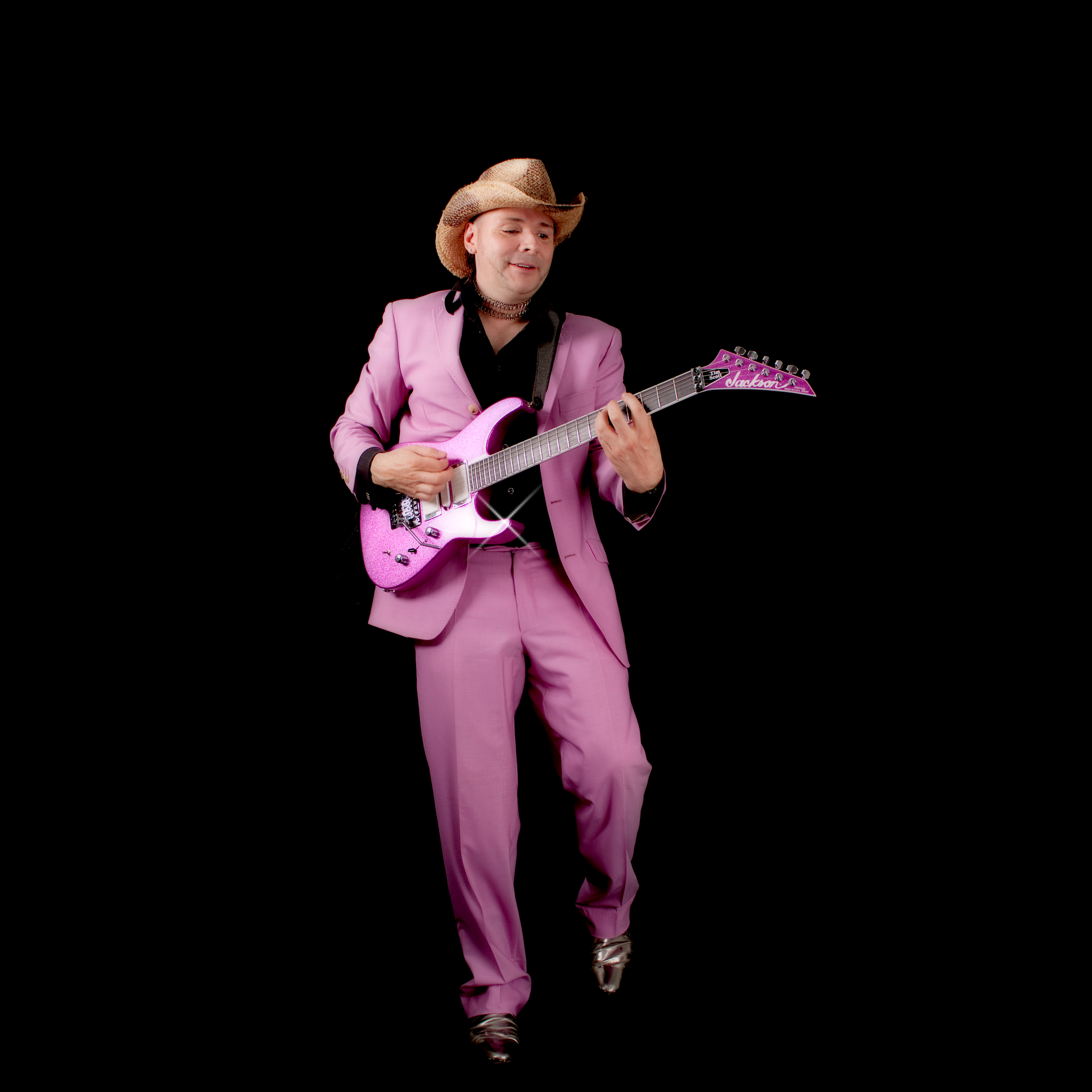 Photograph of Tim Scott with his Custom Jackson Soloist Guitar